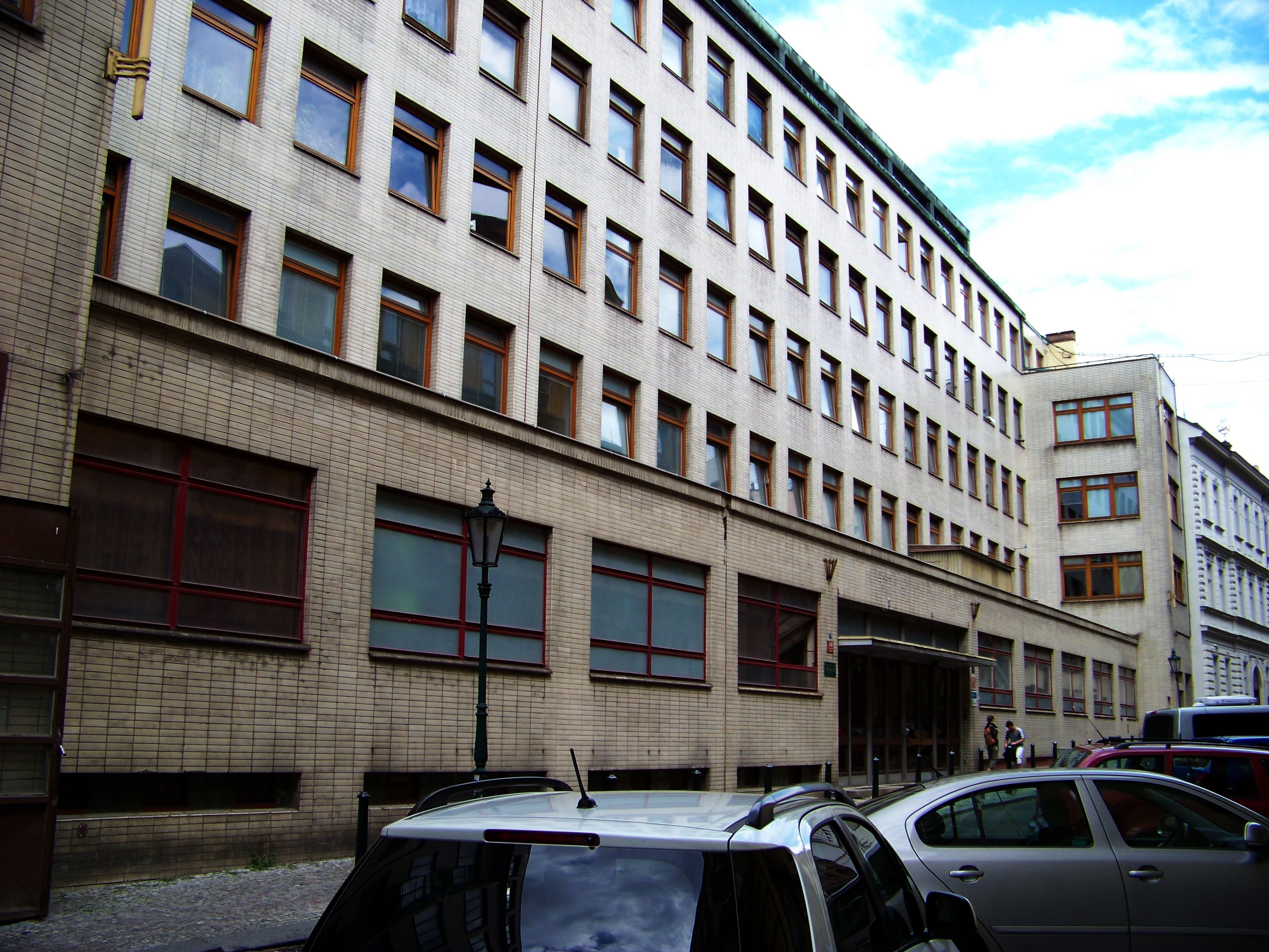 Prague-Old Town, the Czech Republic. Bartolomějská street, a police office.